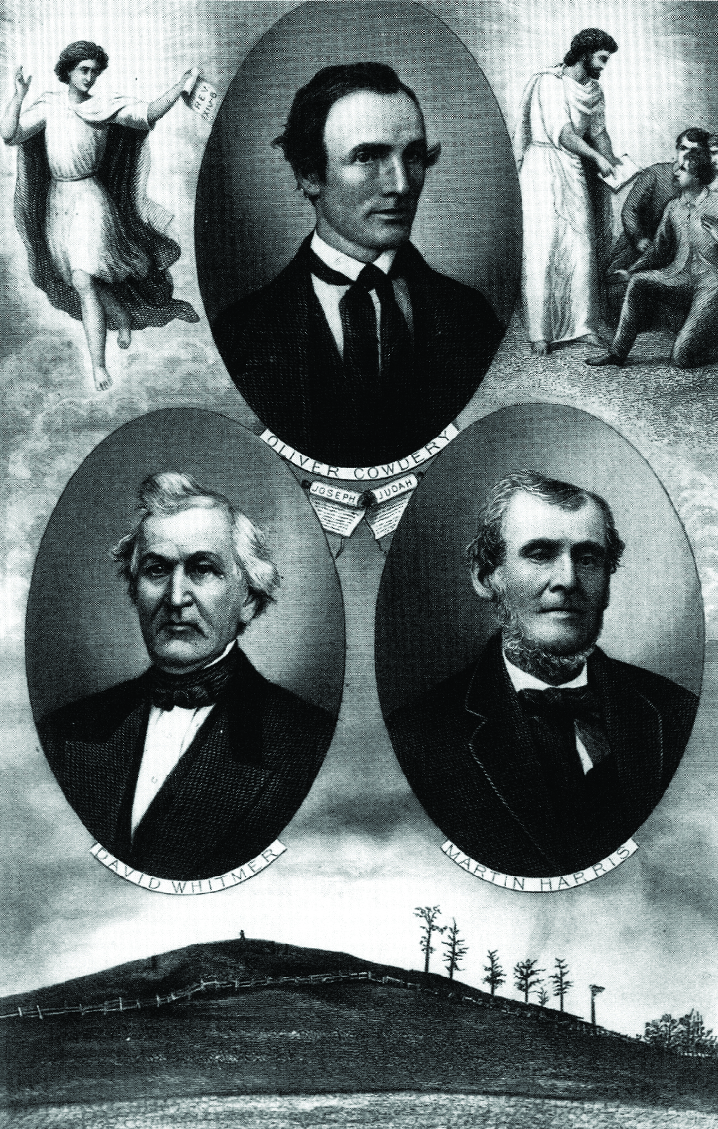 This was the front piece of the 1883 Contributor magazine, courtesy of Edward L. Hart.